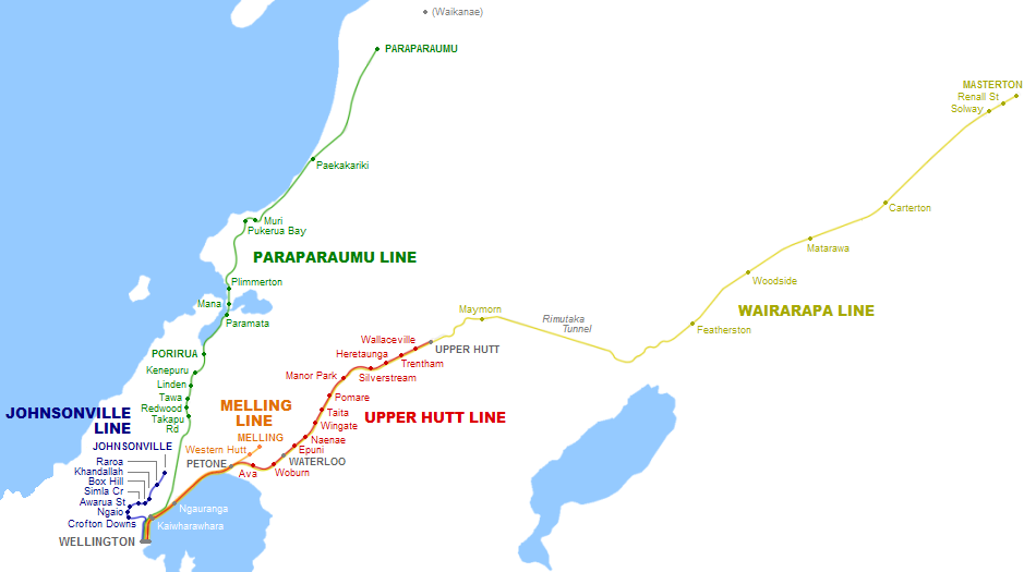 map of Wellington commuter rail